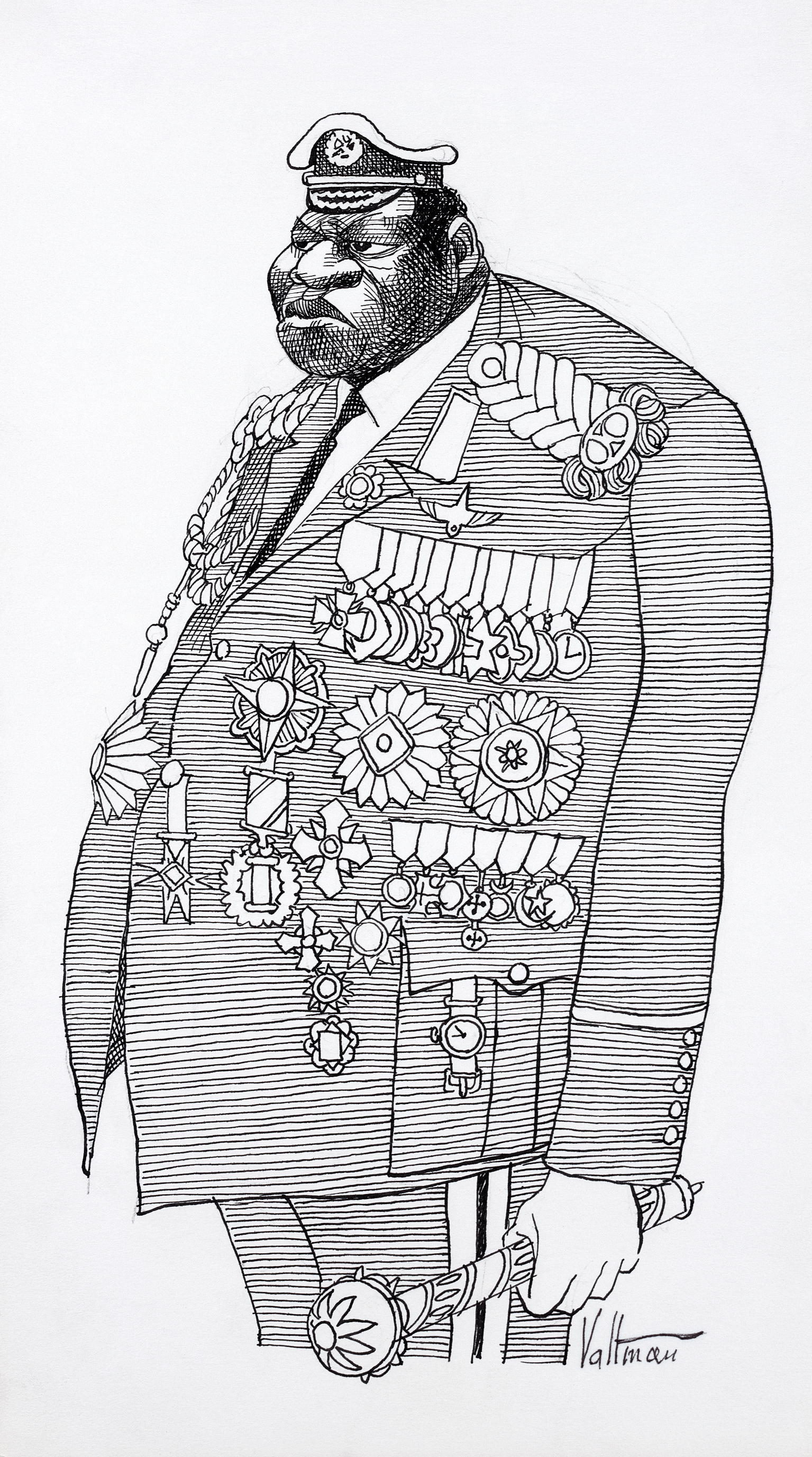 "Caricature shows Idi Amin, President of Uganda from 1971 to 1979 as a bloated, powerful figure in military dress covered with medals and insignia, holding a sceptor, and crowned by a small head with heavy features. While President of Uganda from 1971 to 1979, Idi Amin committed appalling acts of violence against the people of his country. A career army officer, Amin overthrew the elected government of Milton Obote in 1971. During Amin's first year in office, he ordered massacres of troops whom he suspected of disloyalty. In 1972, he expelled Uganda's Indian and Pakistani populations, people who owned most of Uganda's businesses. This hastened the country's economic decline. Following a coup attempt in 1972, Amin sent squads of soldiers to seize and kill Ugandans who criticized him or whom he considered dangerous. Tanzanians and exiled Ugandans infiltrated Uganda and overthrew Amin's government in 1979. He fled to Libya, then Saudi Arabia, then Bahrain. An estimated 300,000, possibly 500,000 civilians may have been killed under Amin's regime." Ink and pencil drawing on board.